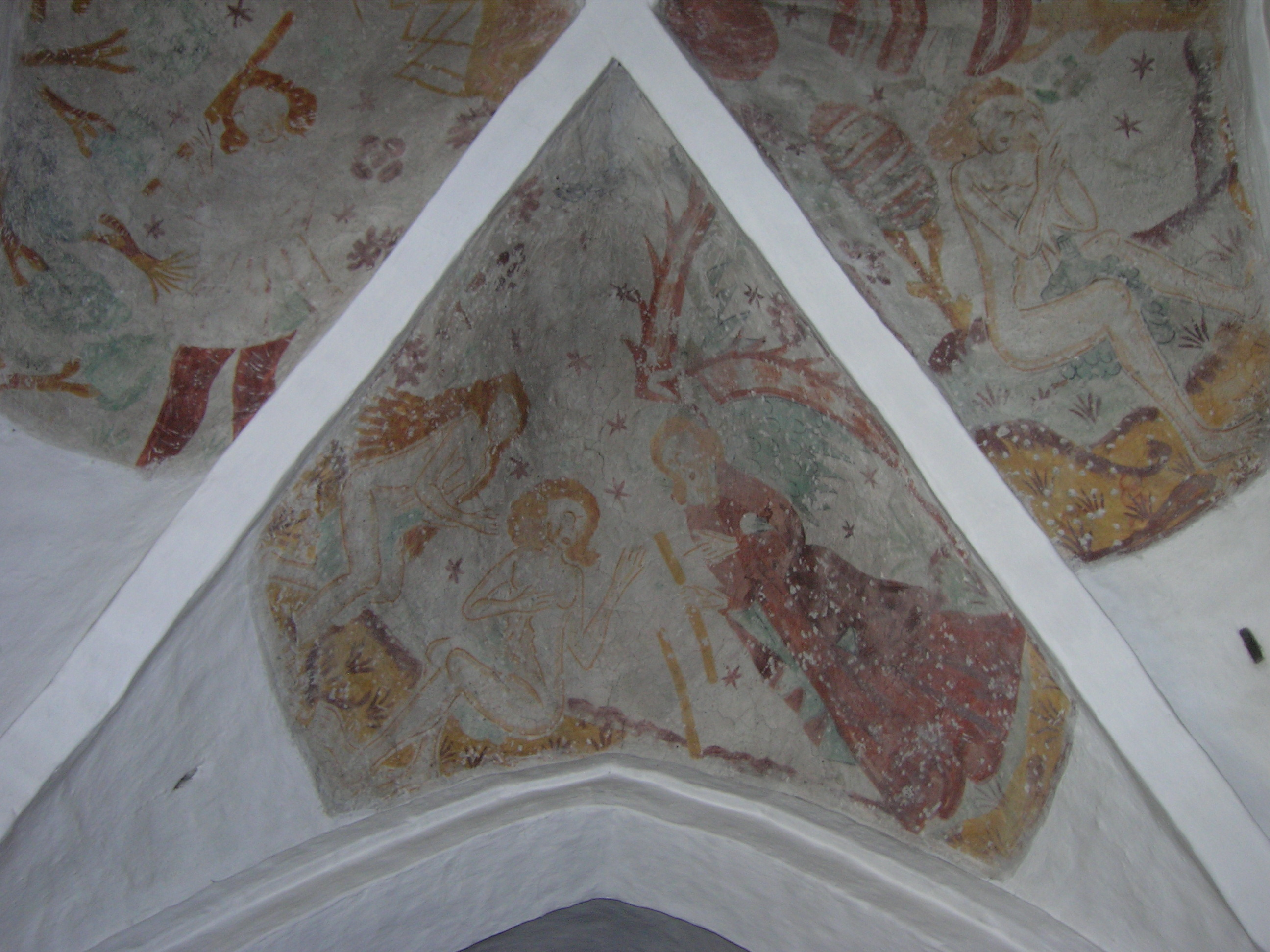 Adam and Eve receive tools from an angel.